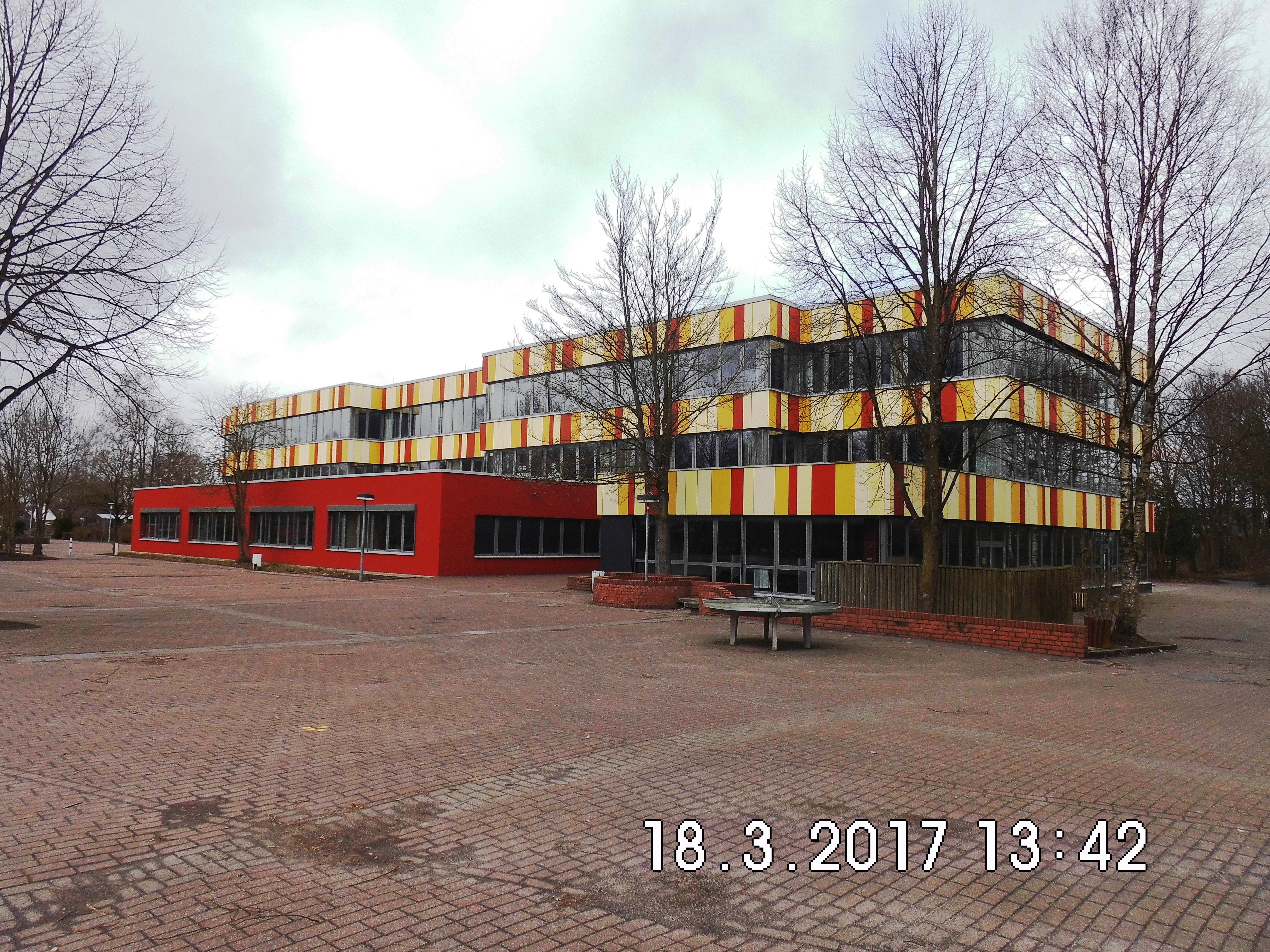 Porta-Coeli-School seen from southeast